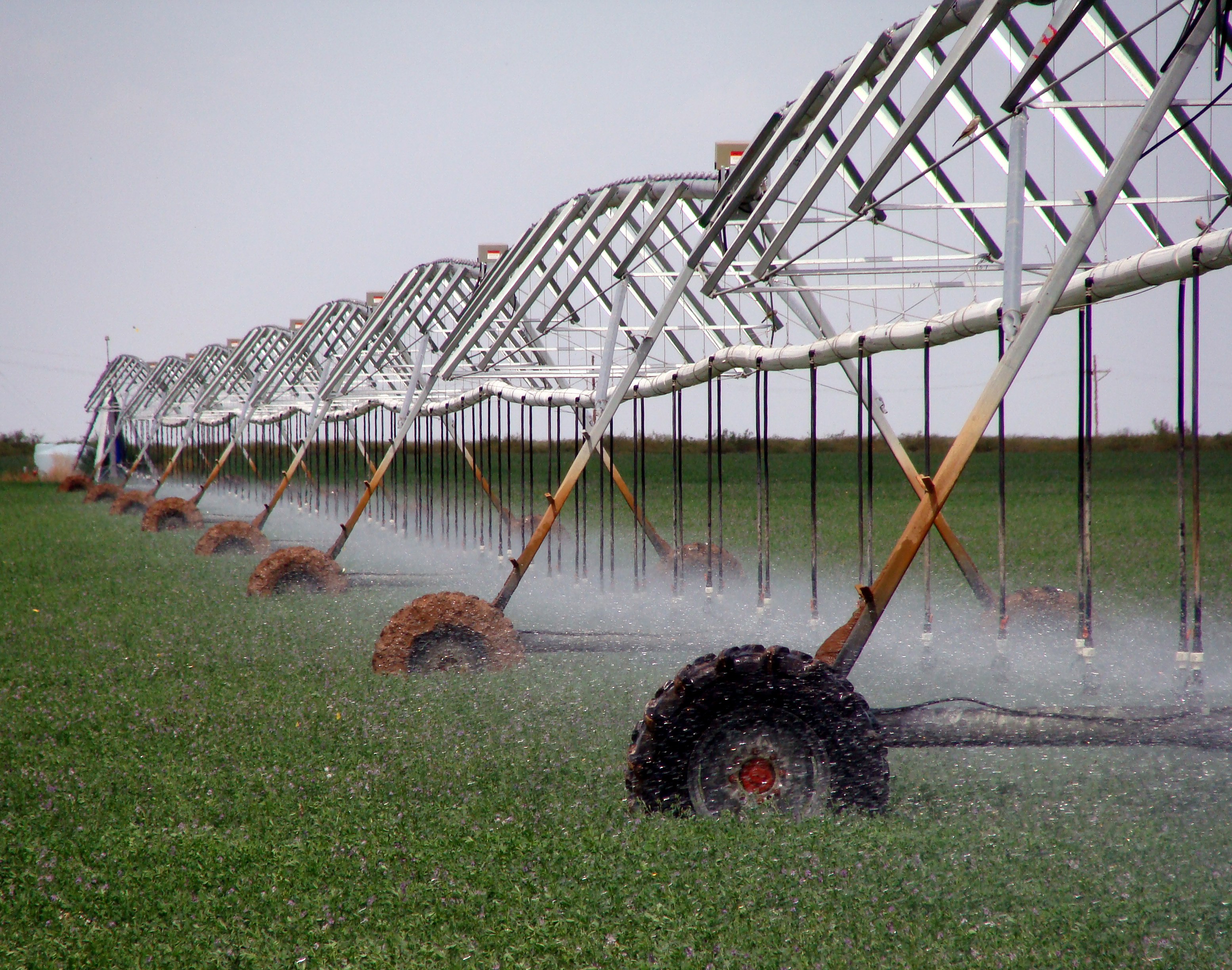 A farm in West Texas, enroute from Carlsbad, New Mexico to Ft. Stockton, Texas, southbound.